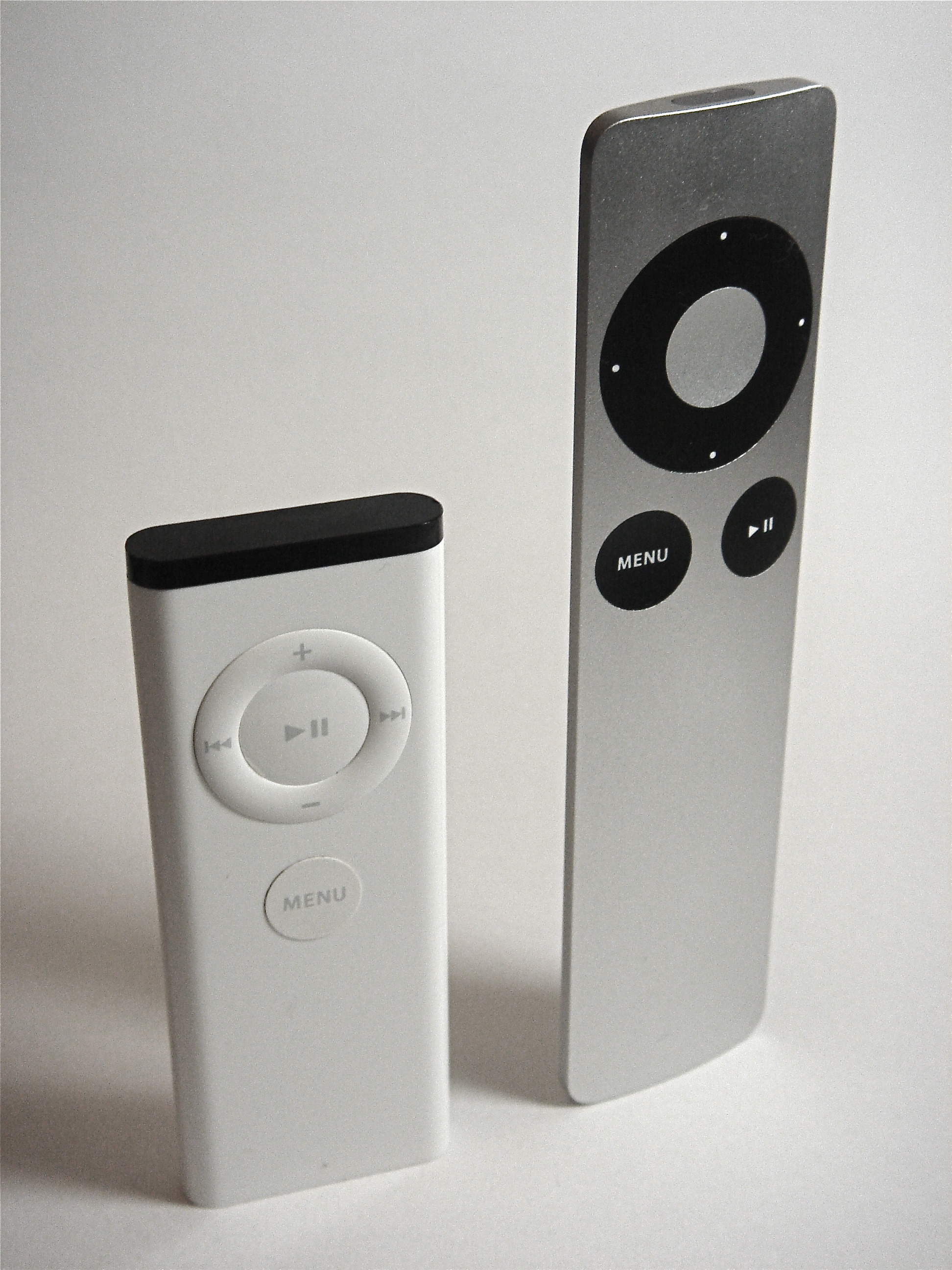 Compare Apple Remote 1. Generation with 2. Generation